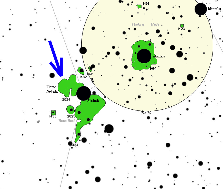 Map of Flame Nebula